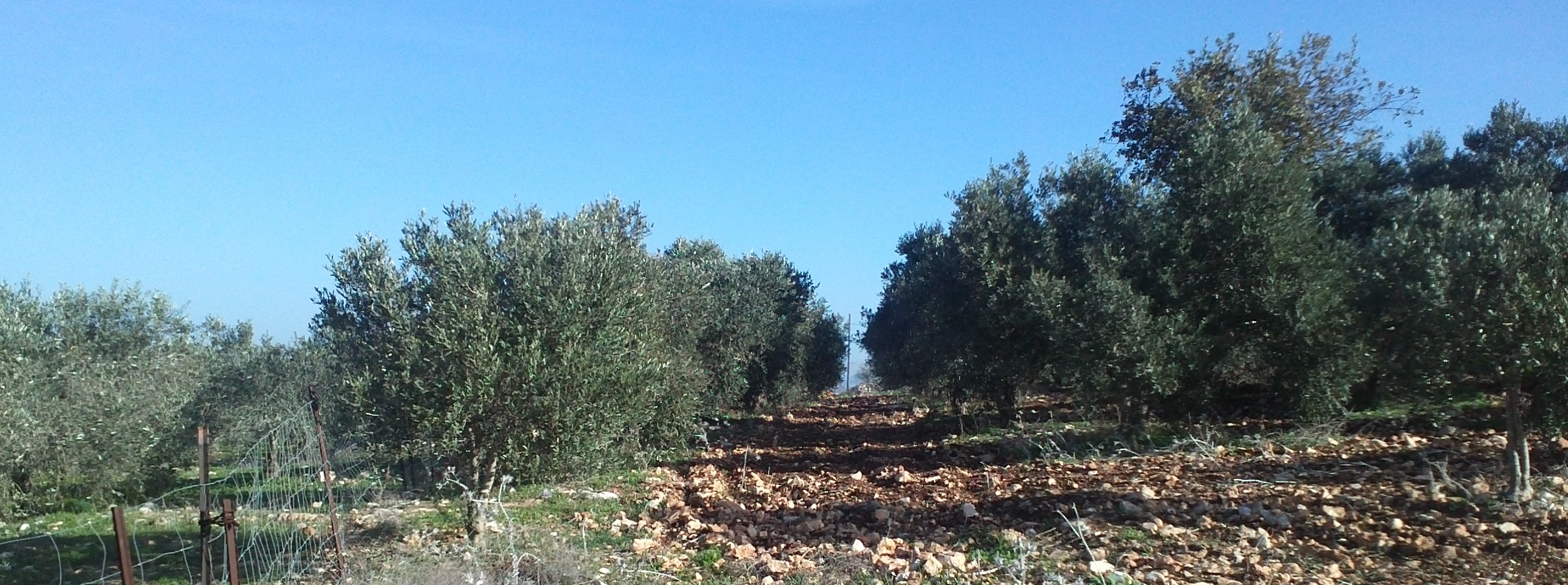 Olive trees in Harduf